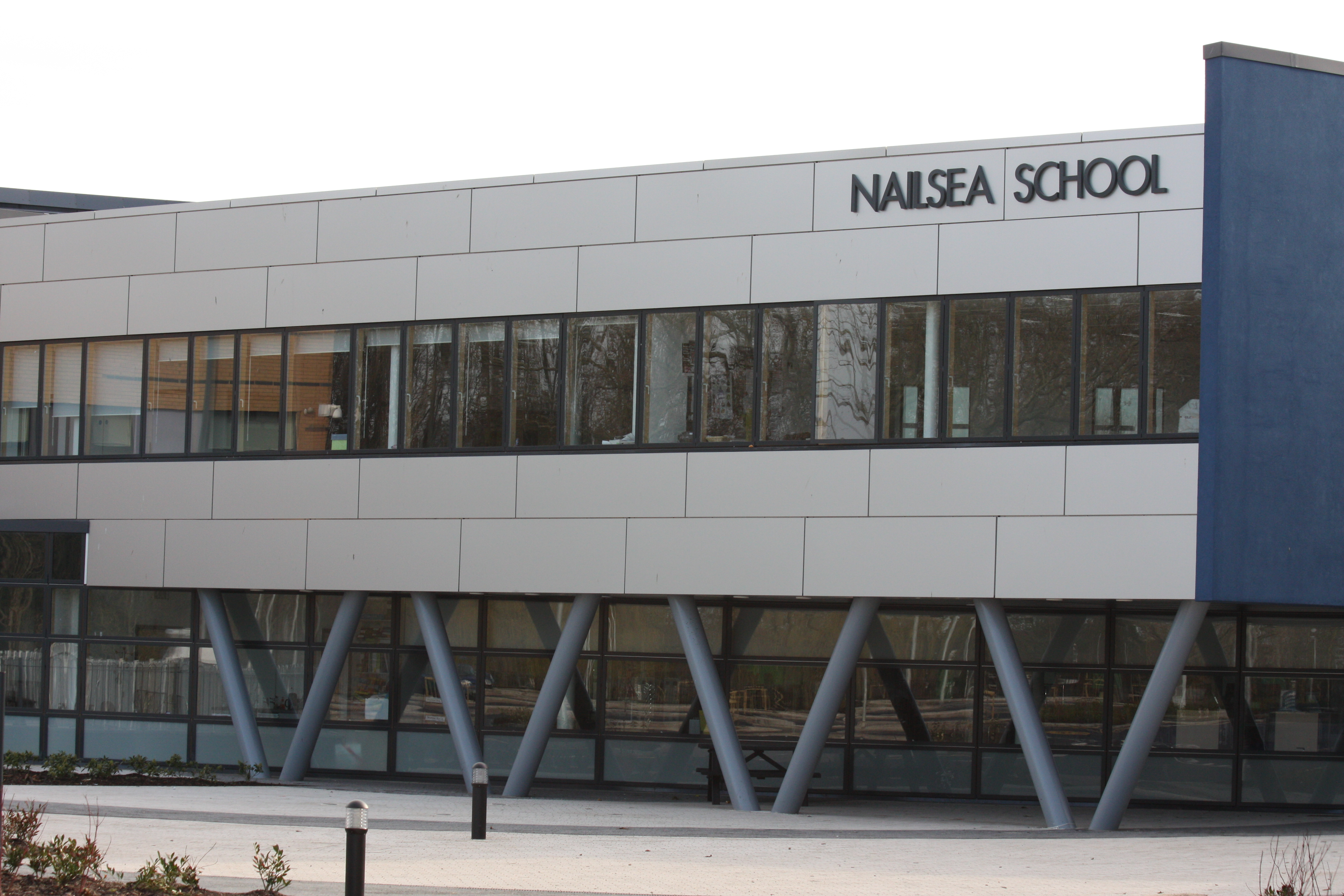 The new school building for Nailsea School, opened 2009.